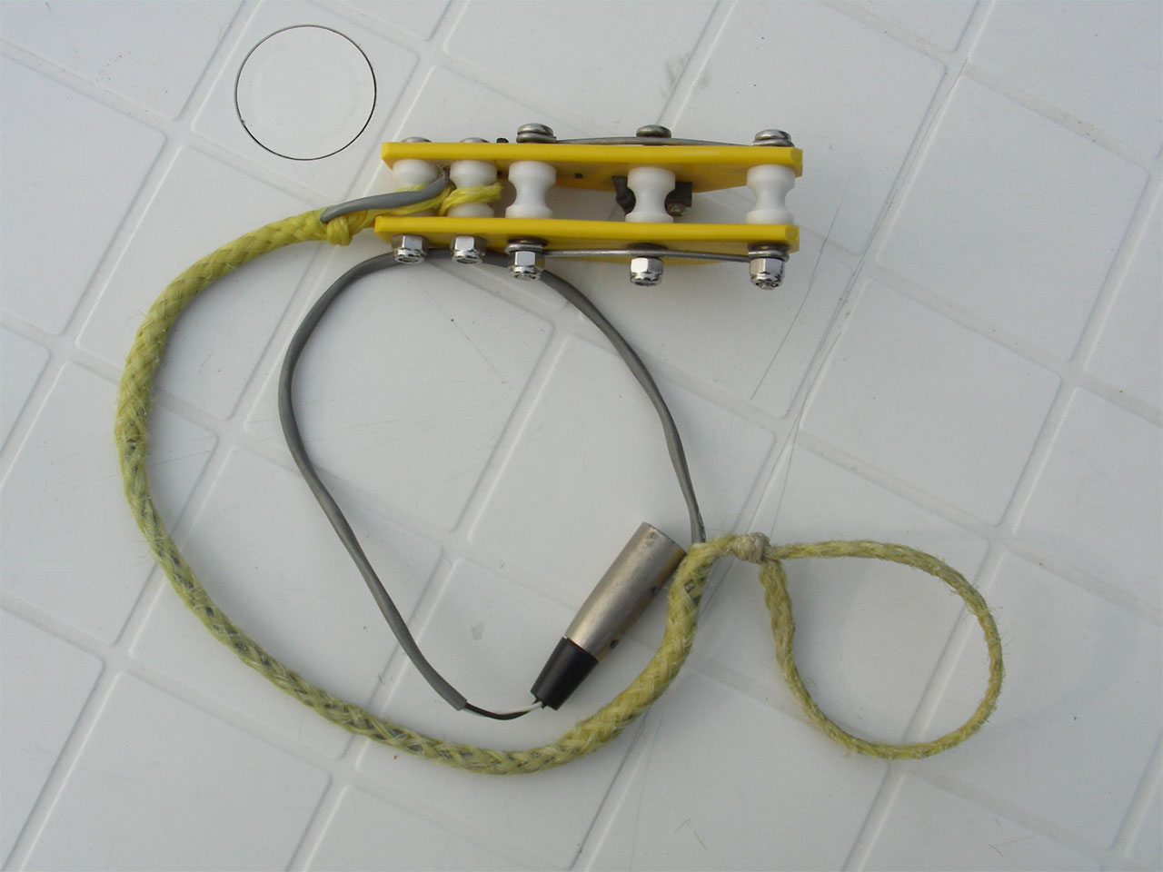 The switch tool fot the Perfect Pass, a boat speed control for Water Skiing and Wakeboard